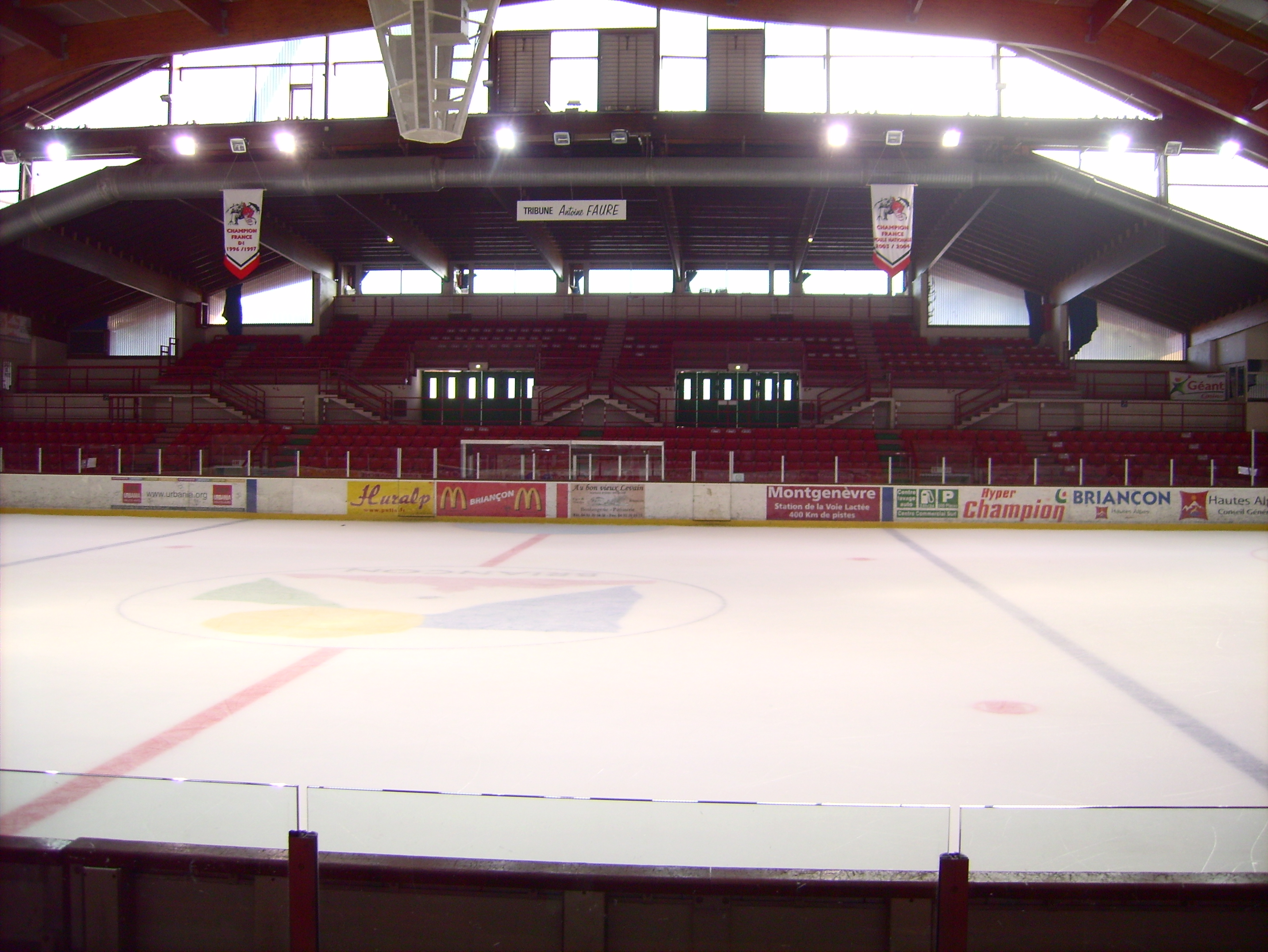 Ice Rink "René Froger" in Briançon, France. Home of the ice hockey team Diables Rouges Briançon.